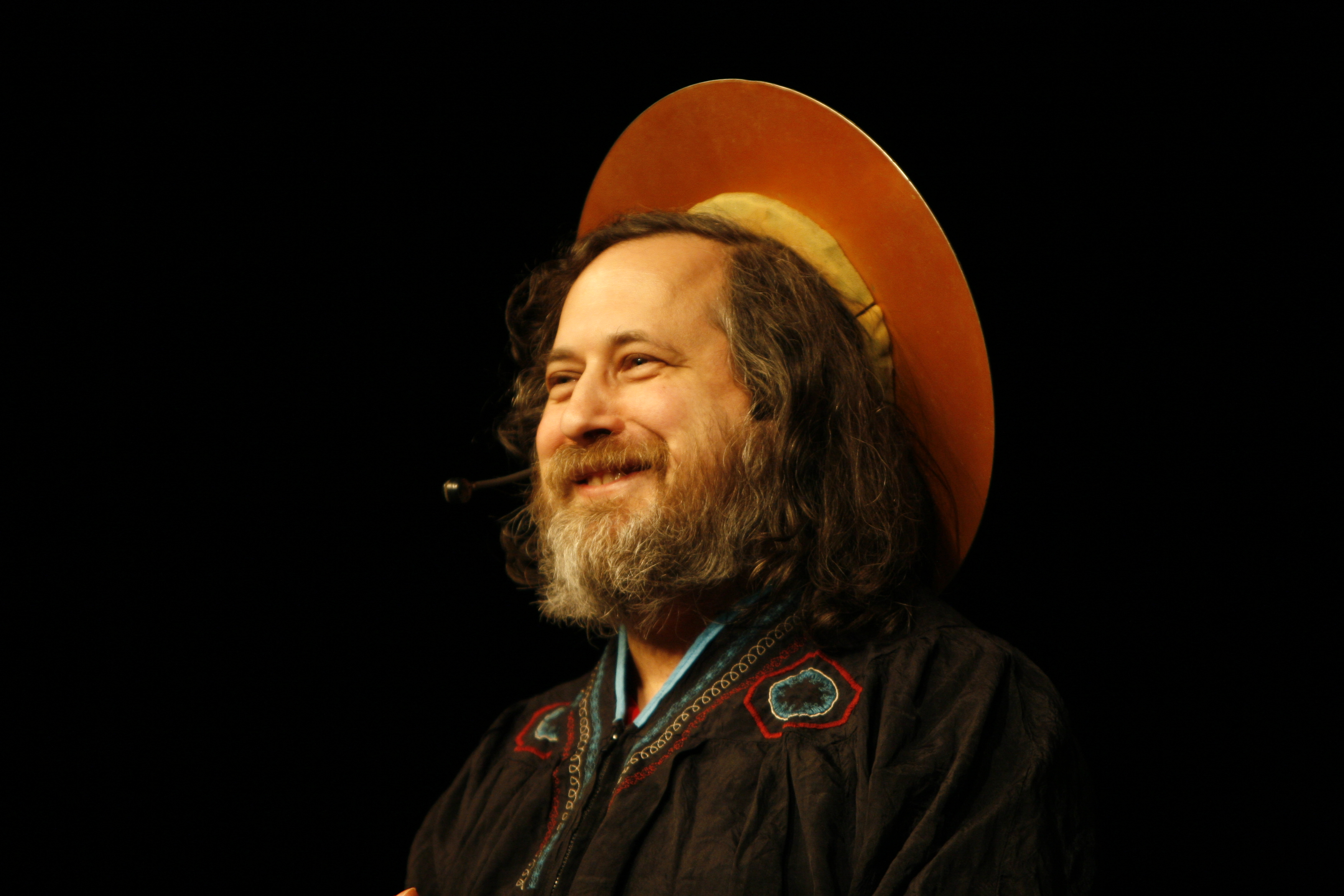 Richard Stallman, founder of the GNU project and free software advocate. Oslo, Norway, 23 February 2009